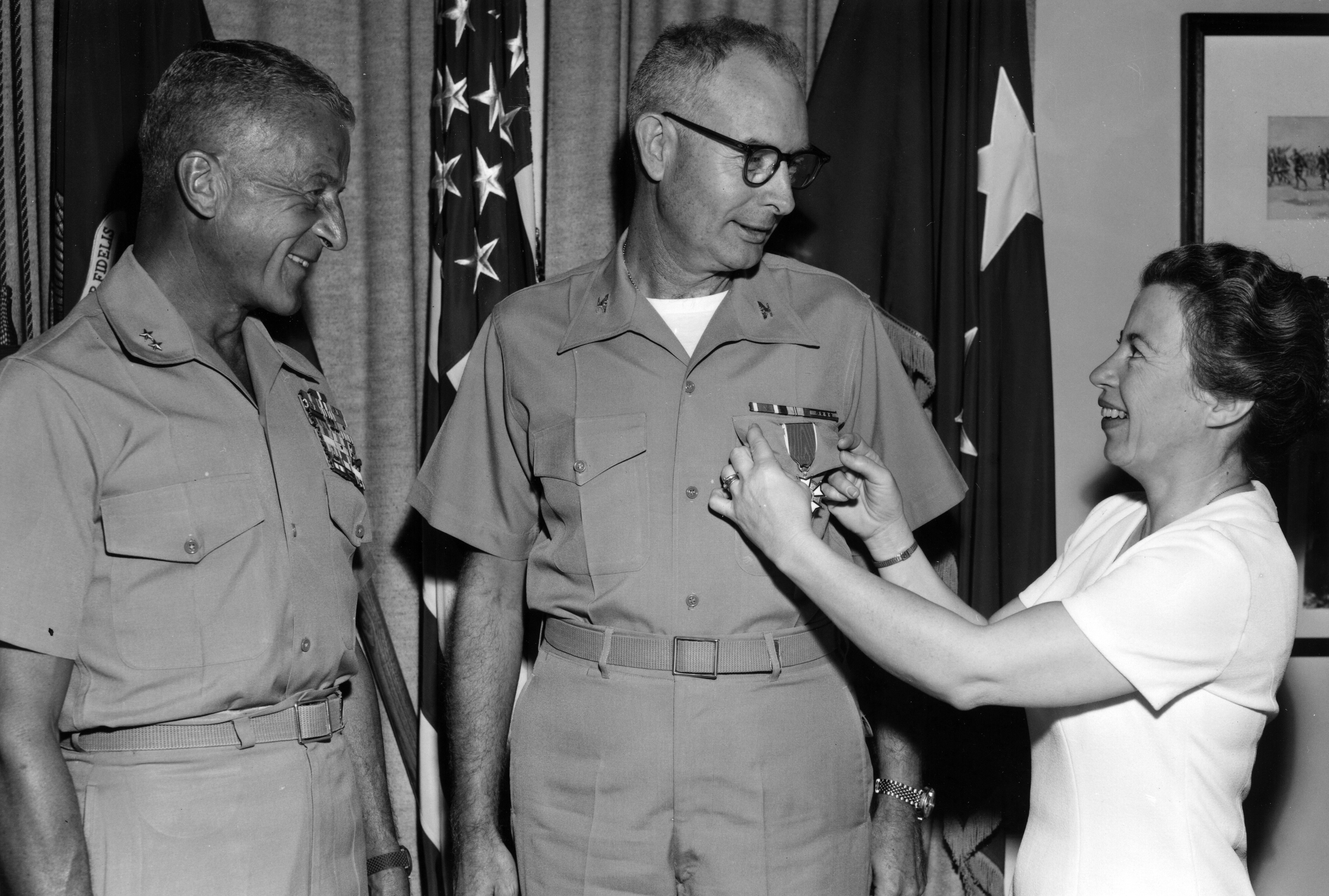 Colonel Herbert L. Wilkerson's Legion of Merit is admired by his wife Jeanne and Commanding general of Camp Lejeune, Major general Rathvon M. Tompkins.